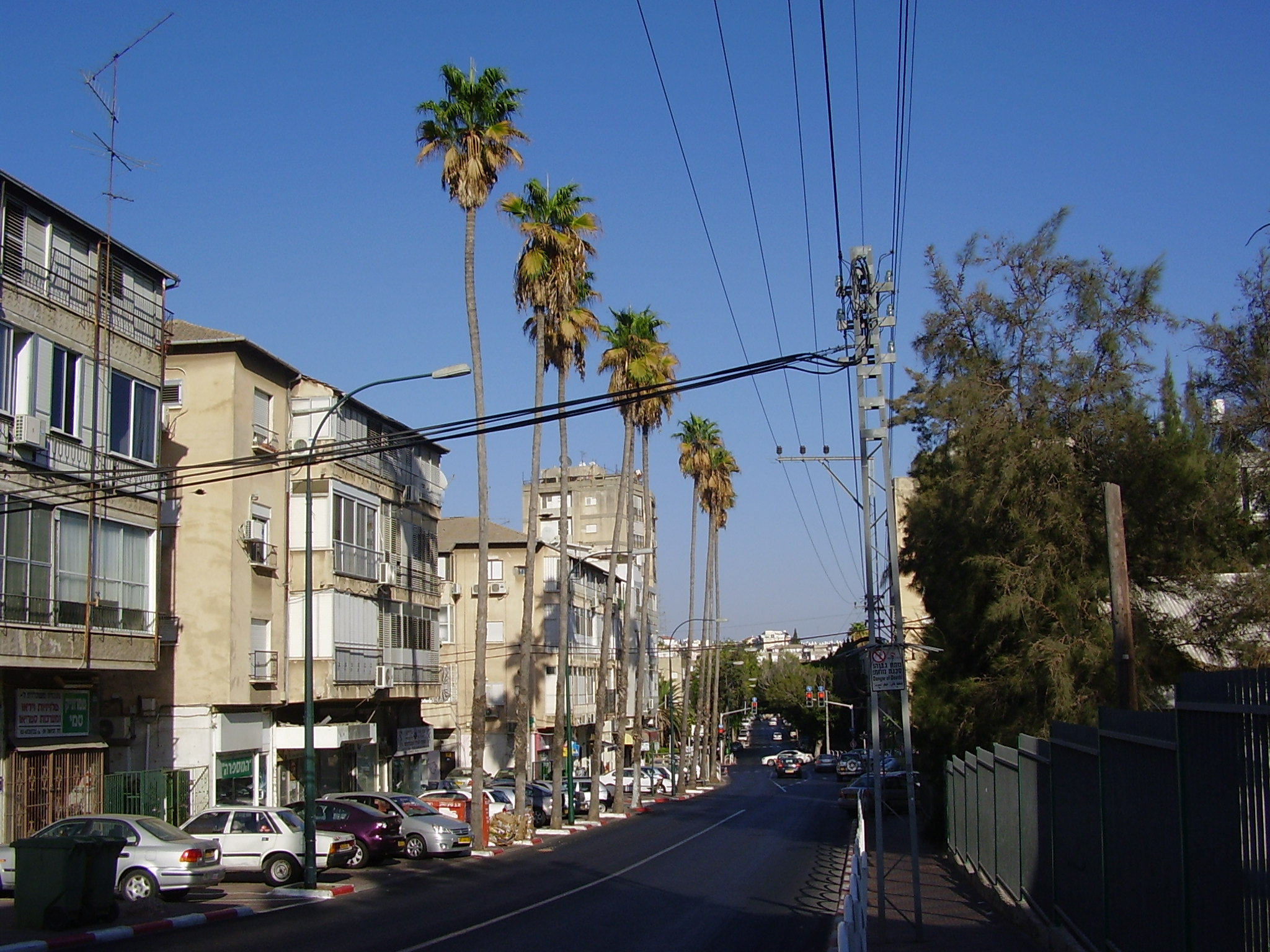 Palms in Haroe Str., Ramat Gan דקלי וושינגטוניה ברחוב הרא"ה ברמת גן